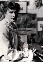 Sophie Pemberton (1869-1959) was a Canadian painter.